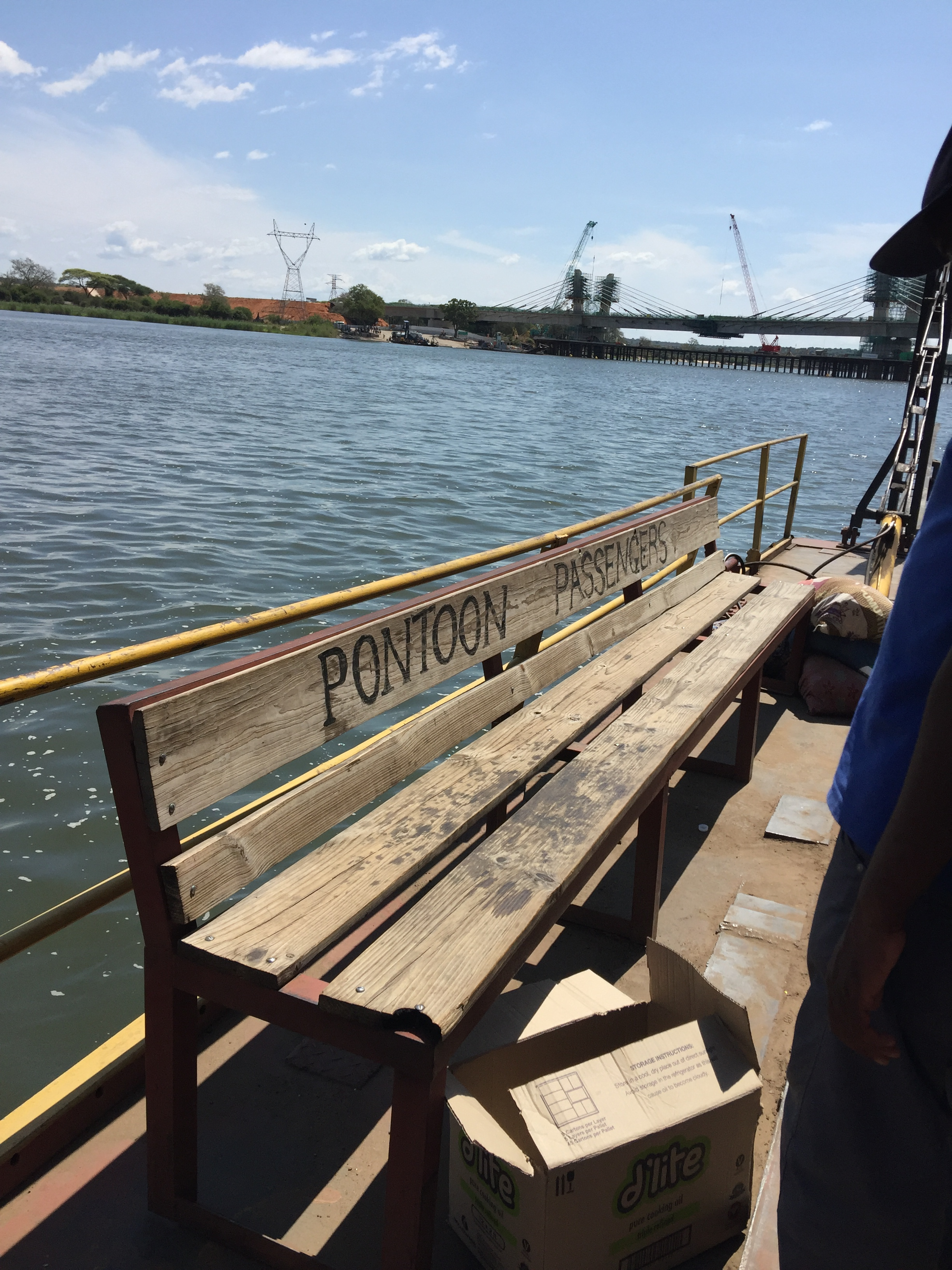 This is an image with the theme "Africa on the Move or Transport" from: Zambia